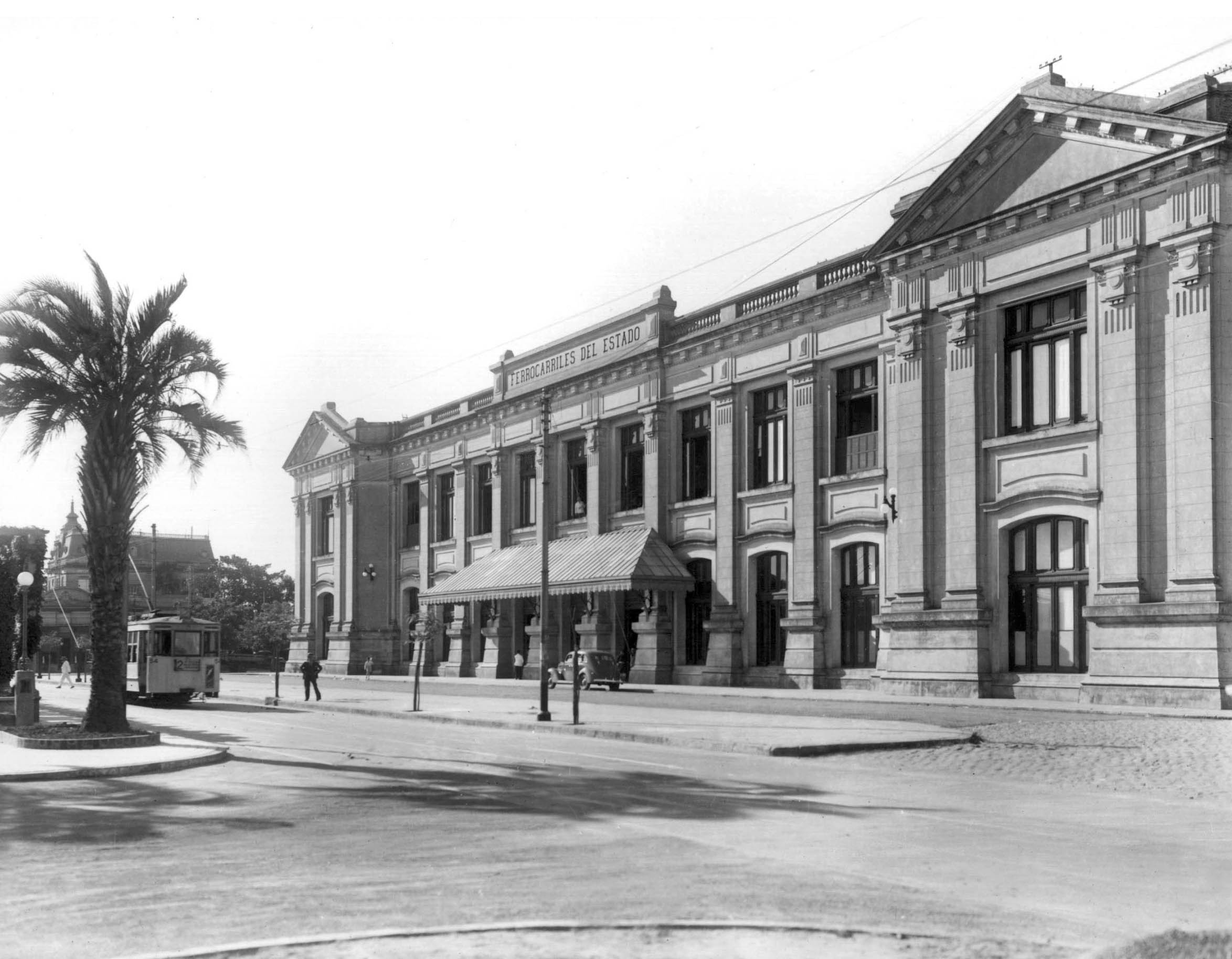 Santa Fe railway station facade with a tram in front of the building. The station was being operated by Central Northern railway by then.